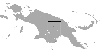 Menzies' Spiny Bandicoot (Echymipera echinista) range